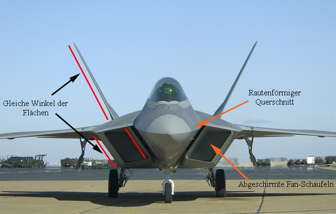 F-22, specific stealth features (german)